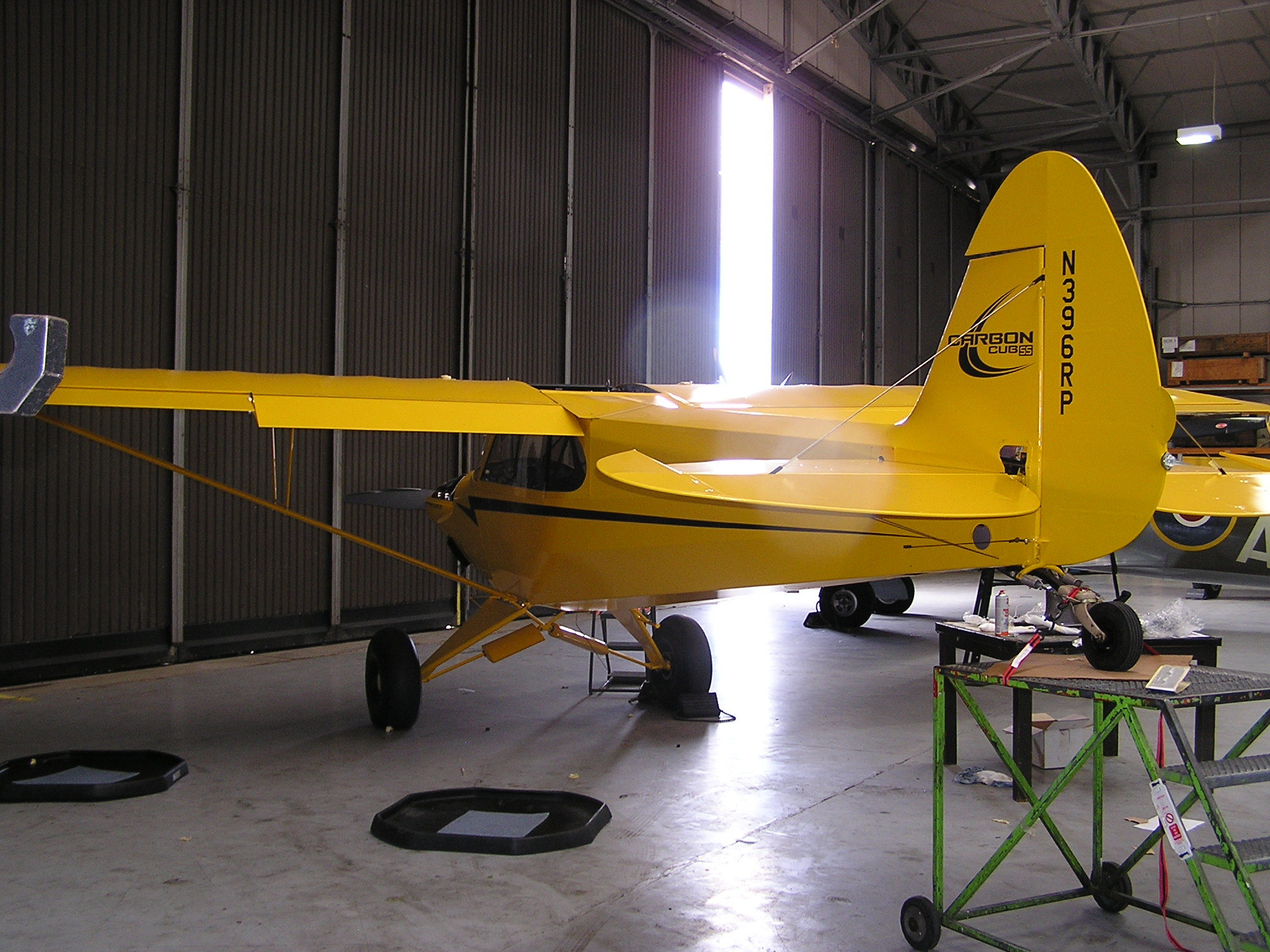 Carbon Cub 55 under maintenance at Duxford, 22 August 2012. According to Air Britain News, AUG1099, the USCAR ascribes this tailnumber to a Beechcraft Bonanza but has a similar number (N396SR) as a Carbon Cub.